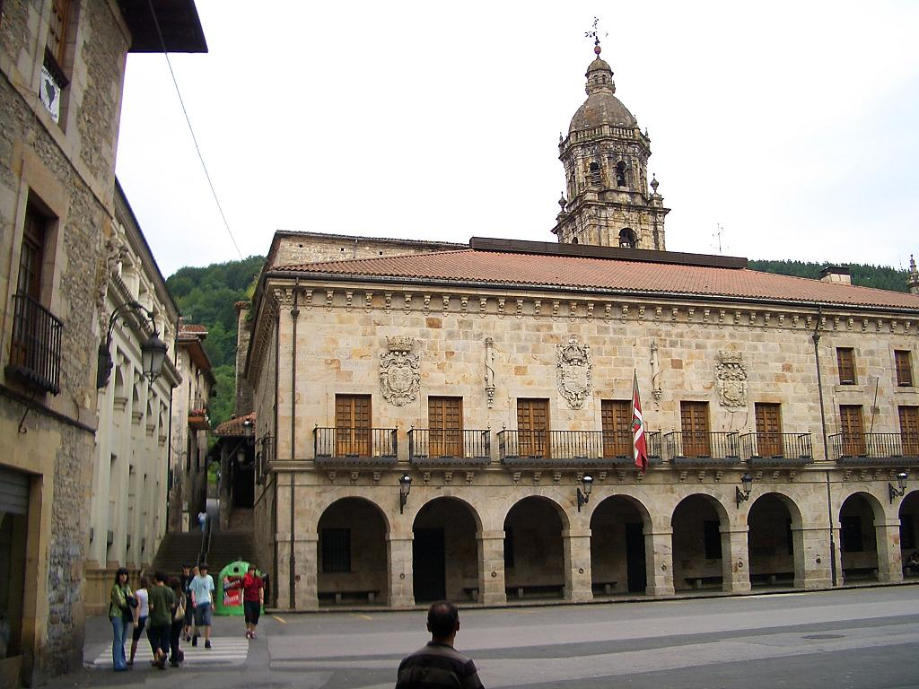 In the central square of Bergara